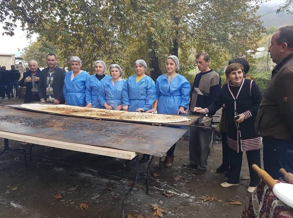 zhengyalov hats rekord